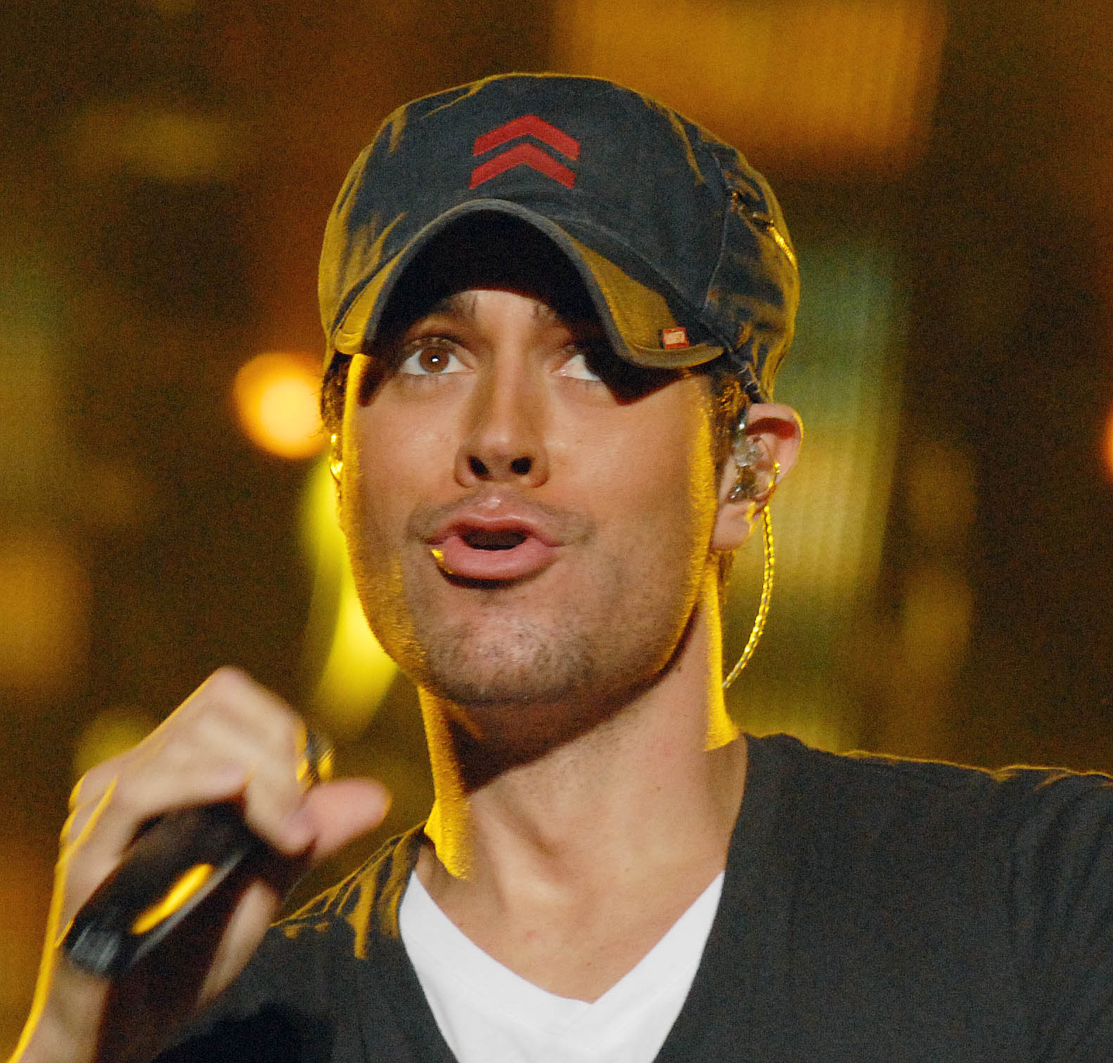 Enrique Iglesias, Vilnius, Lithuania 2007.11.29